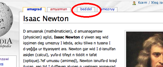 screenshot of "edit" for kab.wiki